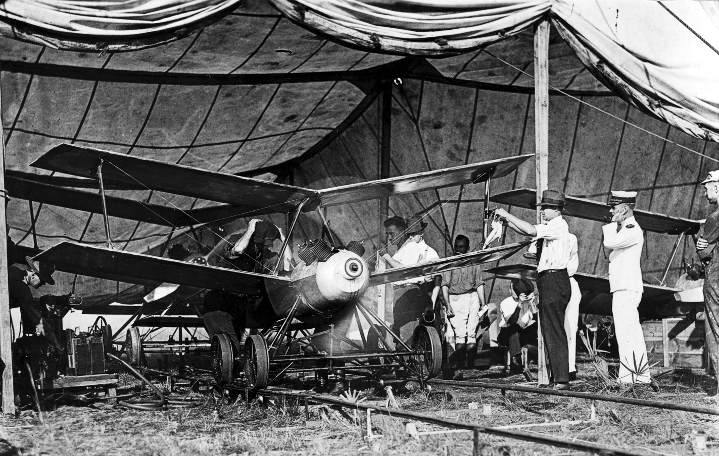 Photograph of prototype Kettering Bug.